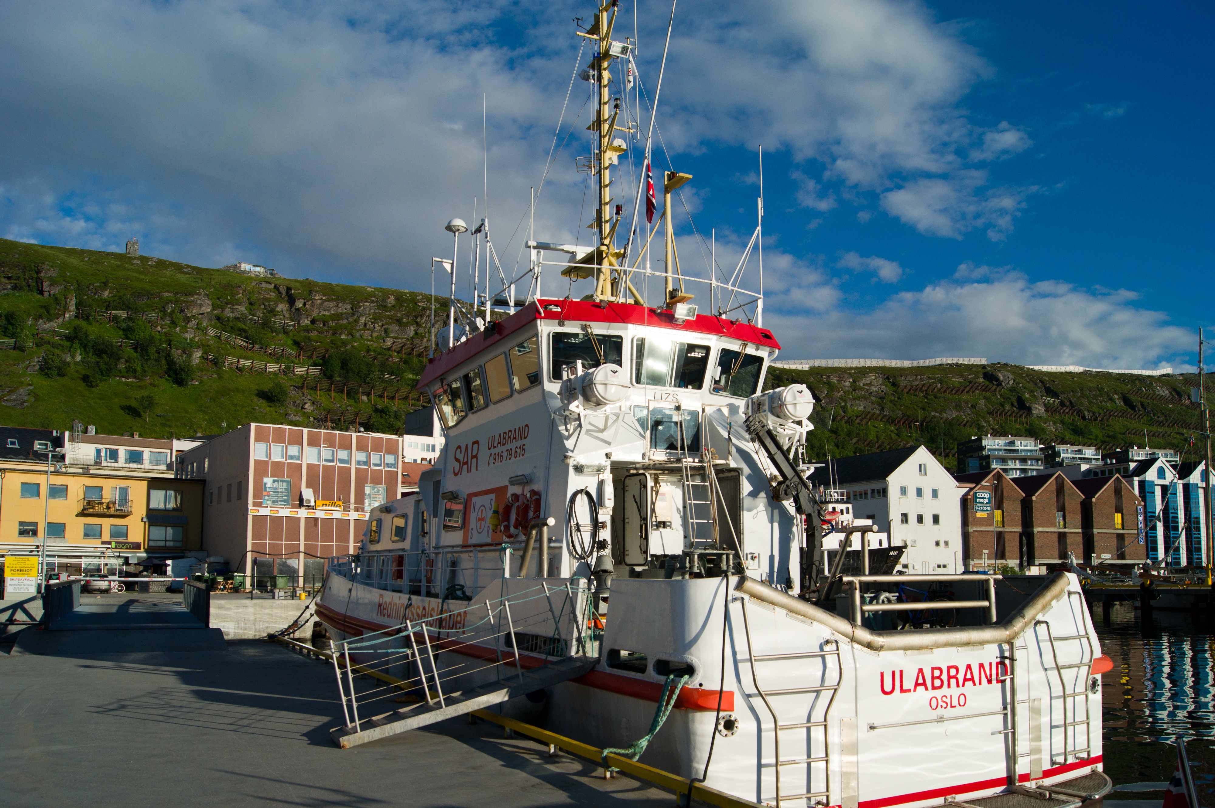 Search and Rescue vessel Ulabrand from the Redningsselskapet, Hammerfest, Norway.